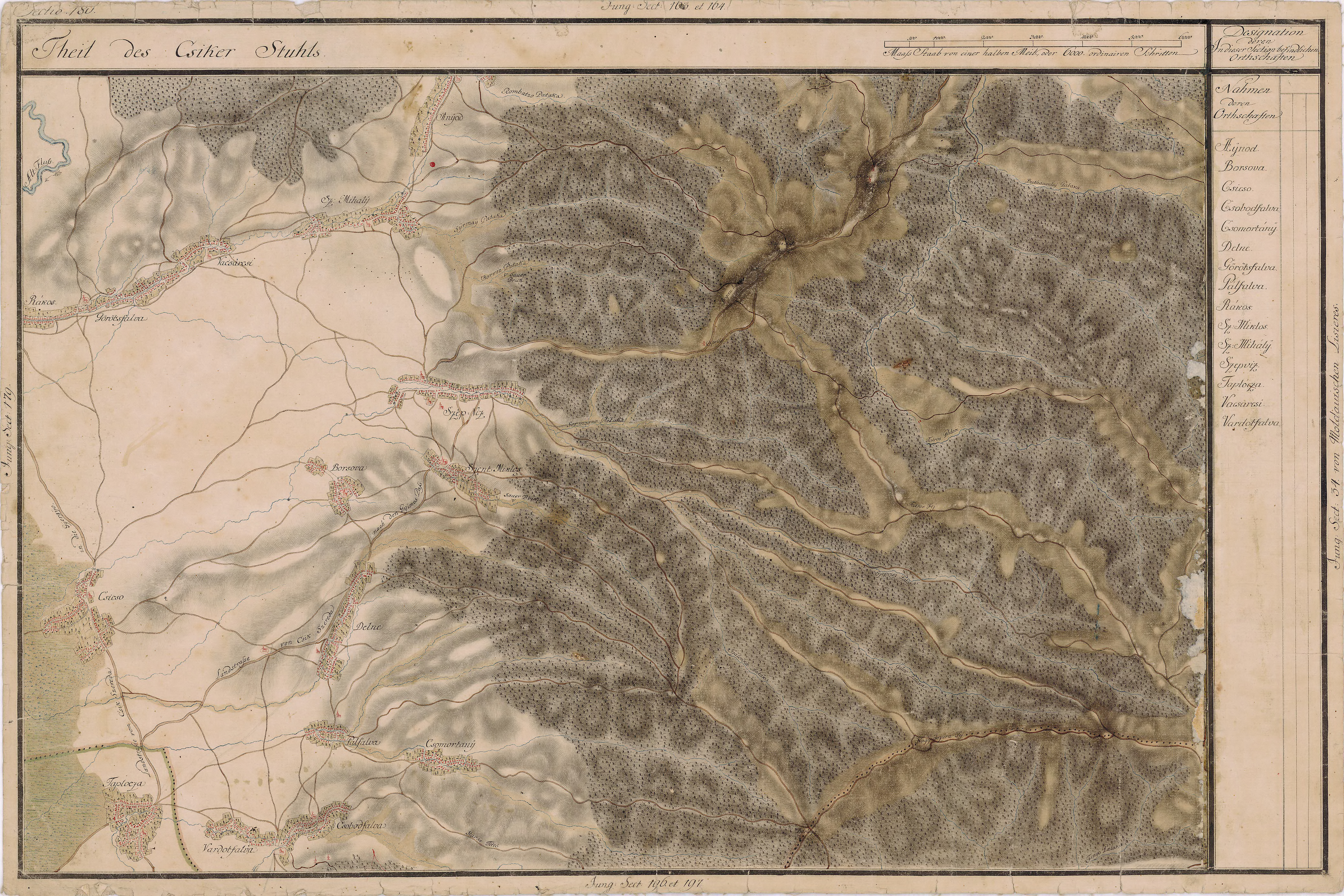 Grand Duchy of Transylvania, 1769-1773. Josephinische Landaufnahme pg.180